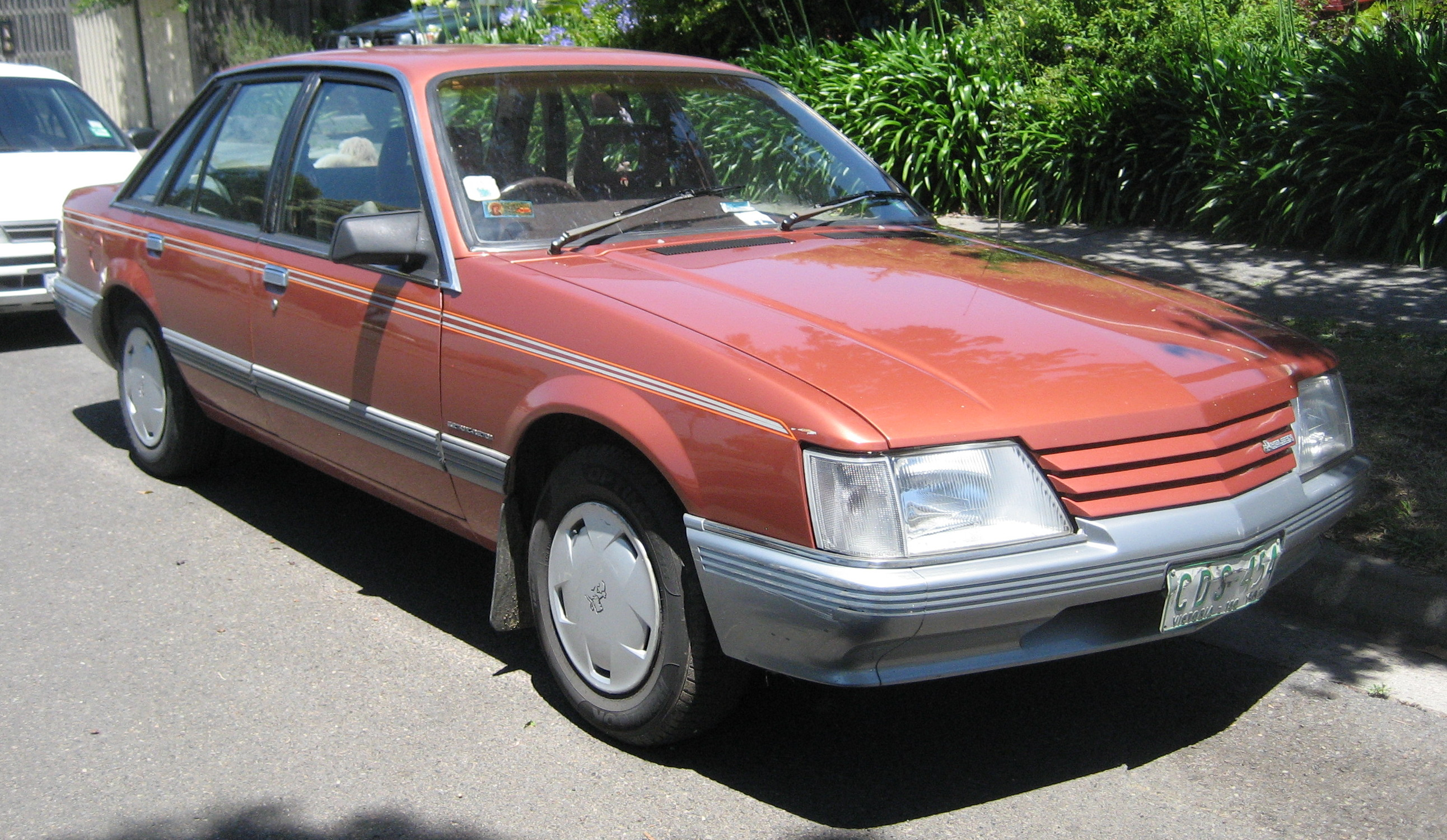 1985 Holden Commodore (VK) Berlina sedan. Photographed in Victoria, Australia. Vehicle registration enquiry resultsJurisdictionVictoriaRegistrationCDS454Chassis codeNot availableEngine codeVK499112Compliance dateNot availableYear of manufacture1985